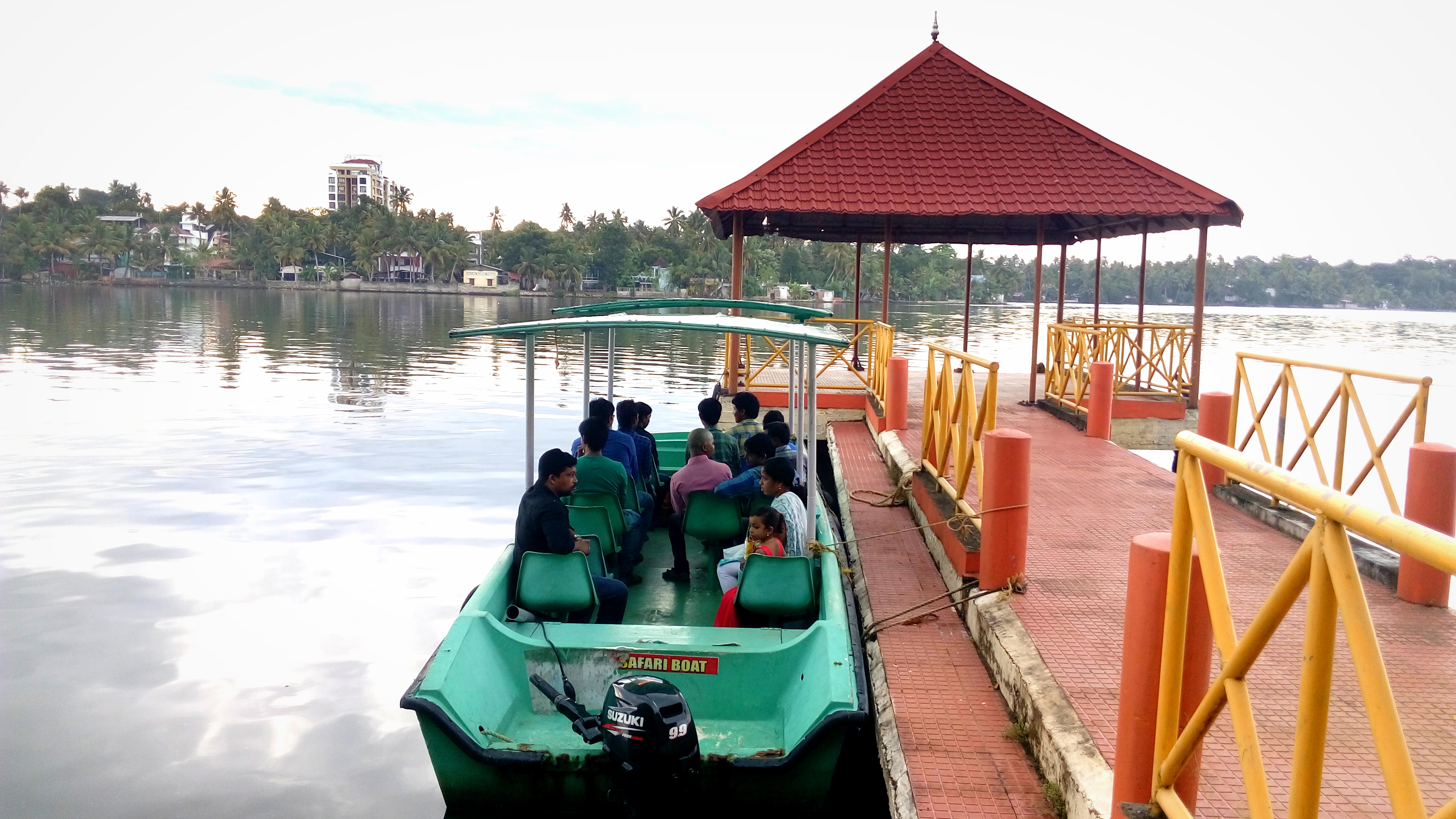 Kollam is famous for it's natural beauty and backwaters